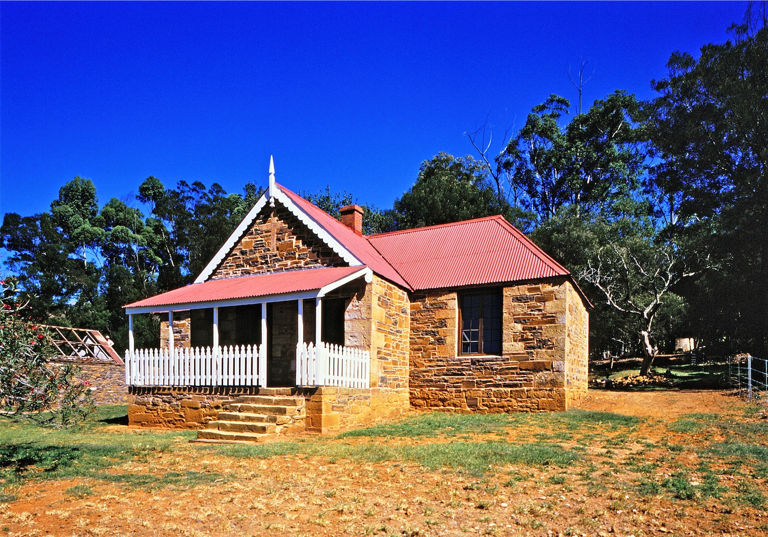 This media shows a South African Protected Site with SAHRA file reference 9/2/429/0001.